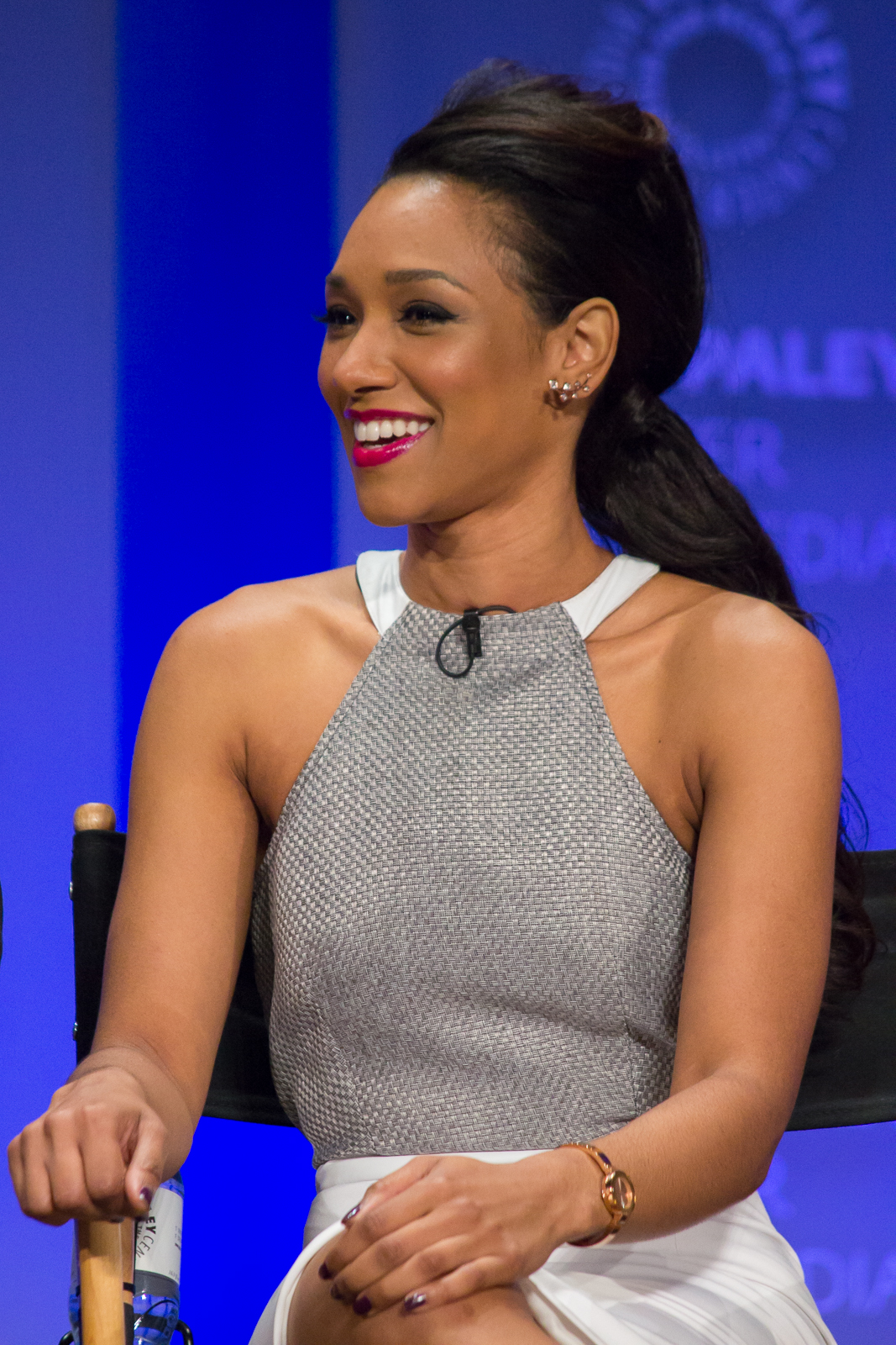 Candice Patton at the PaleyFest 2015 presentation for "The Flash"